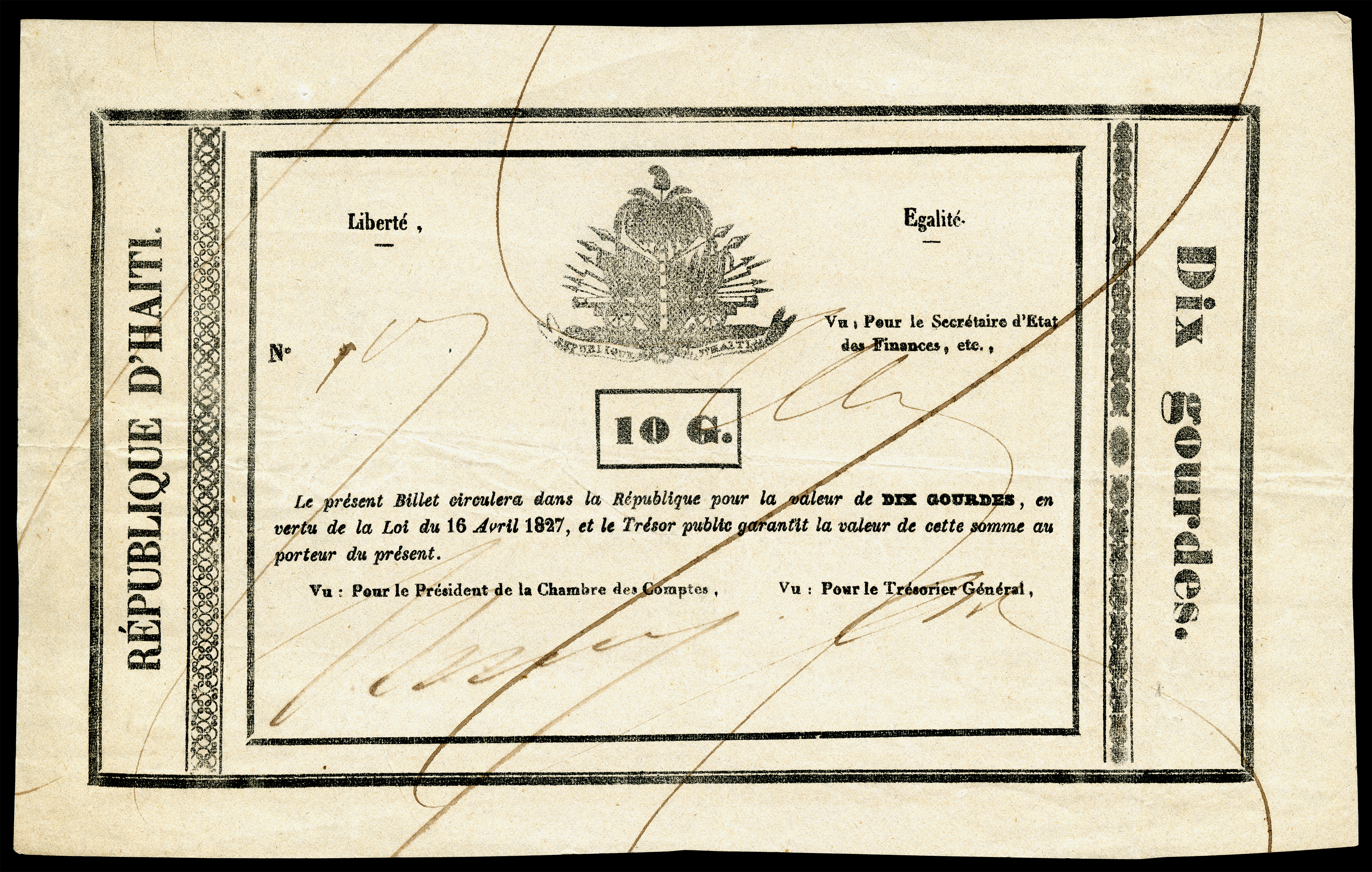 Republique d'Haiti, 10 Gourdes under law dated 16 April 1827 (first issue).